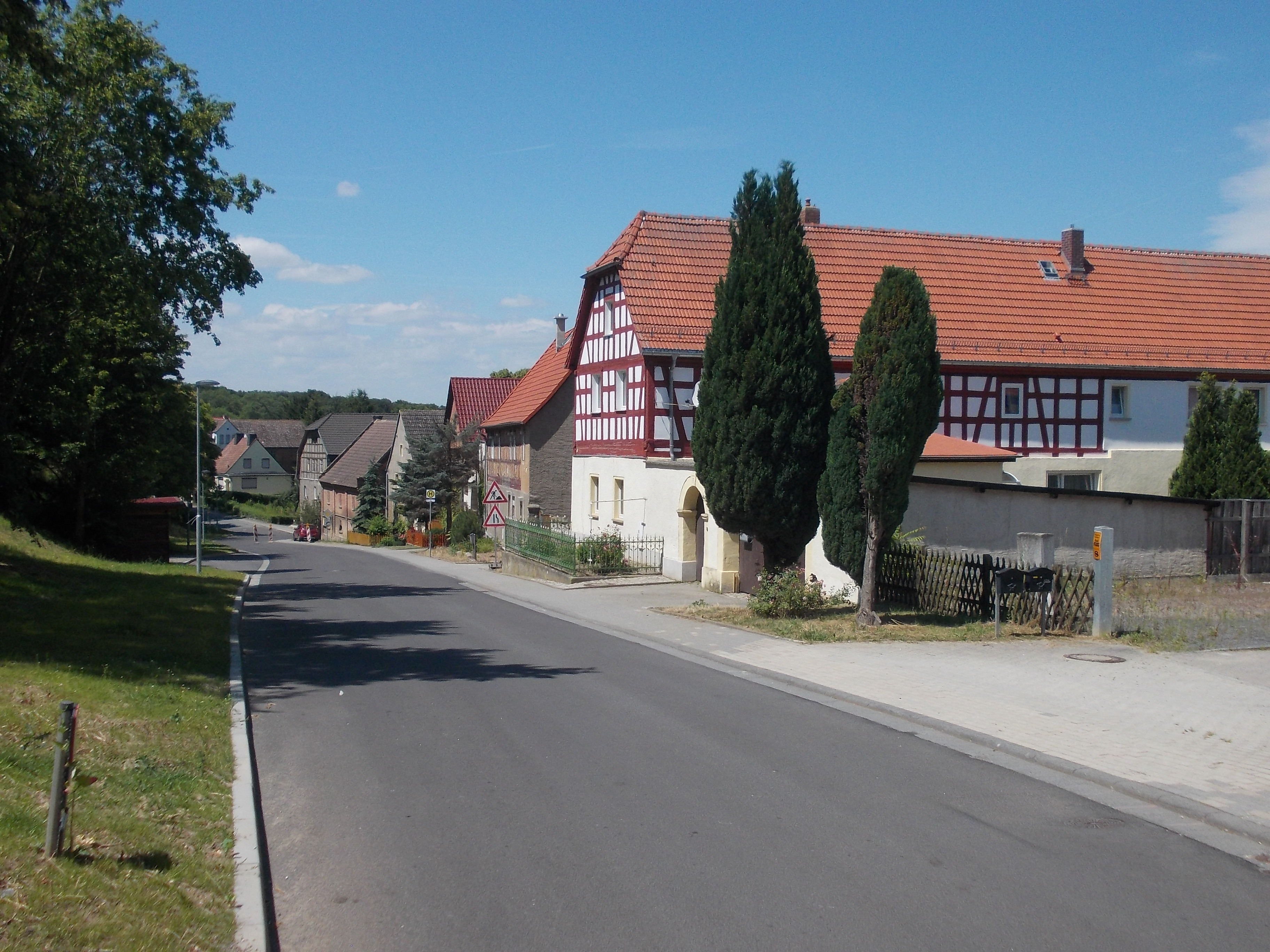 The main street of Görschen (Mertendorf, district: Burgenlandkreis, Saxony-Anhalt)